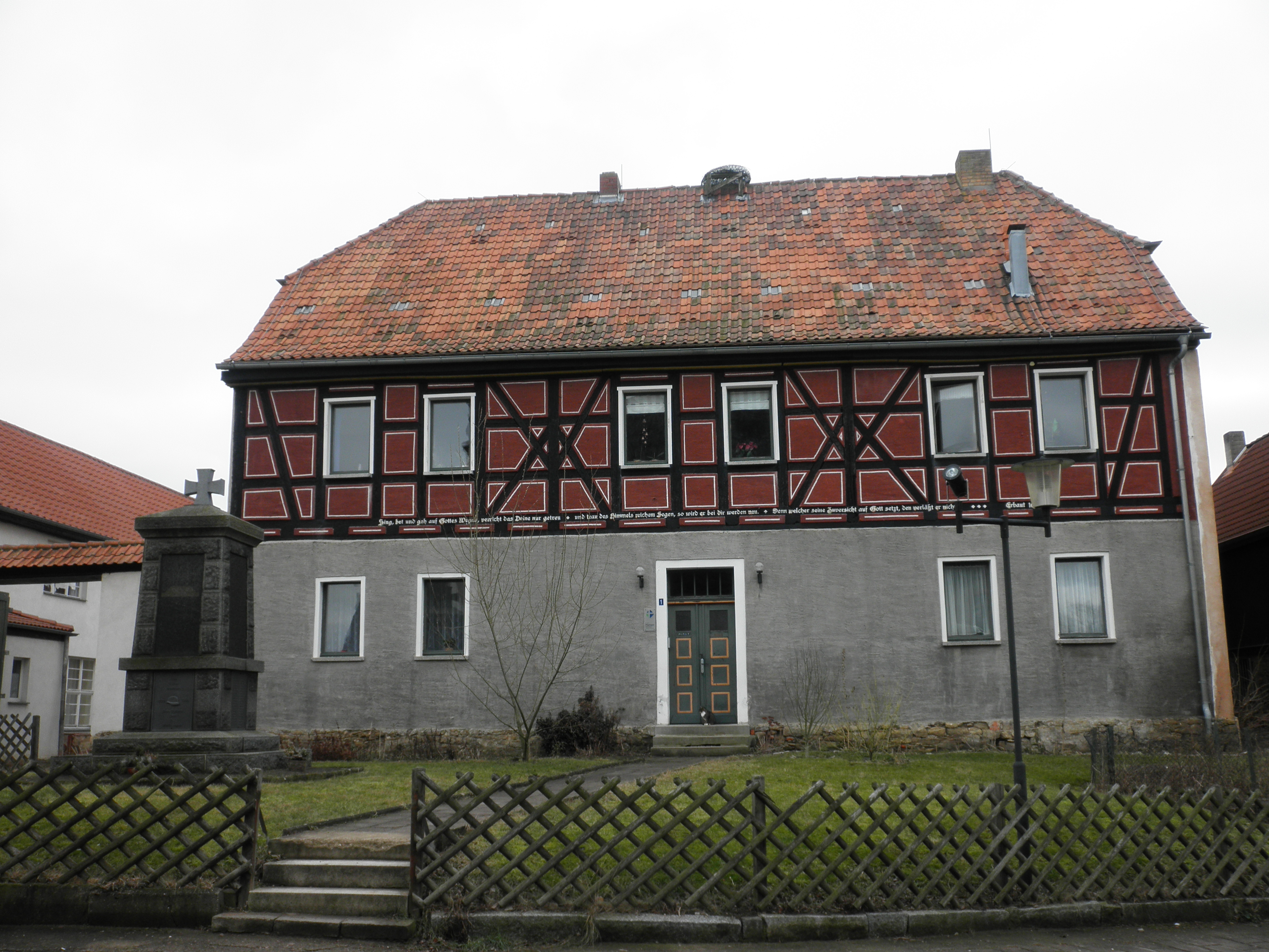 Parsonage in Großbrembach in Thuringia